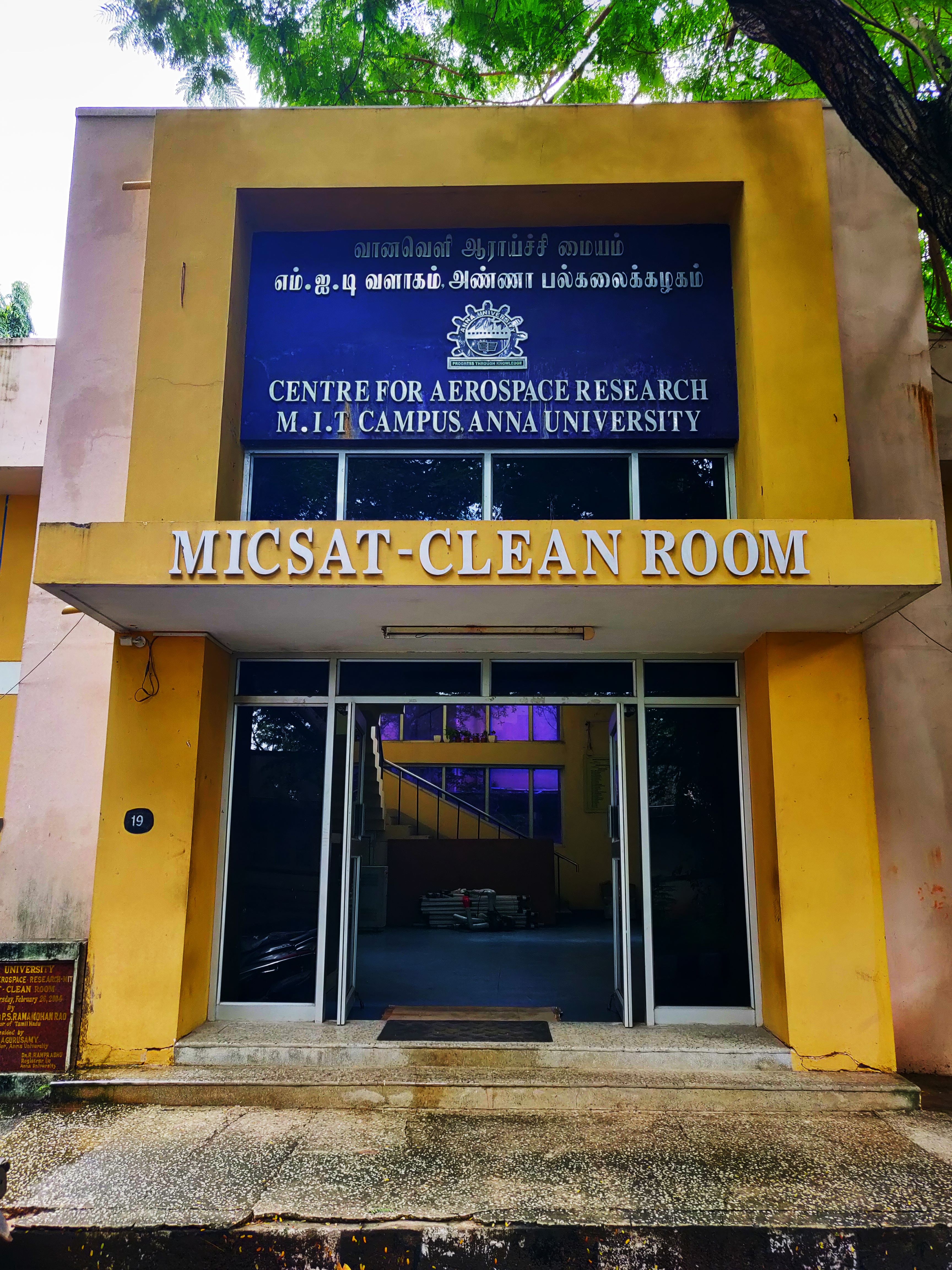 The Centre for Aerospace Research (CASR) came into being in 2000 and focuses on advancing research in aerospace sciences. The centre has a design, analysis and computational capabilities to take up problems in high speed and low speed flows, structure, aero-thermal effect and composites. The applications software being regularly employed include MSC-NASTRAN, STAR-CD, CFX, I_DEAS and tascflow. For carrying out experimental studies in the thrust areas, the centre has laboratories and facilities with specialised equipment. The country's first student-developed satellite ANUSAT is designed, developed and integrated at this facility. The aerospace department includes the avionics department which designs the control software.